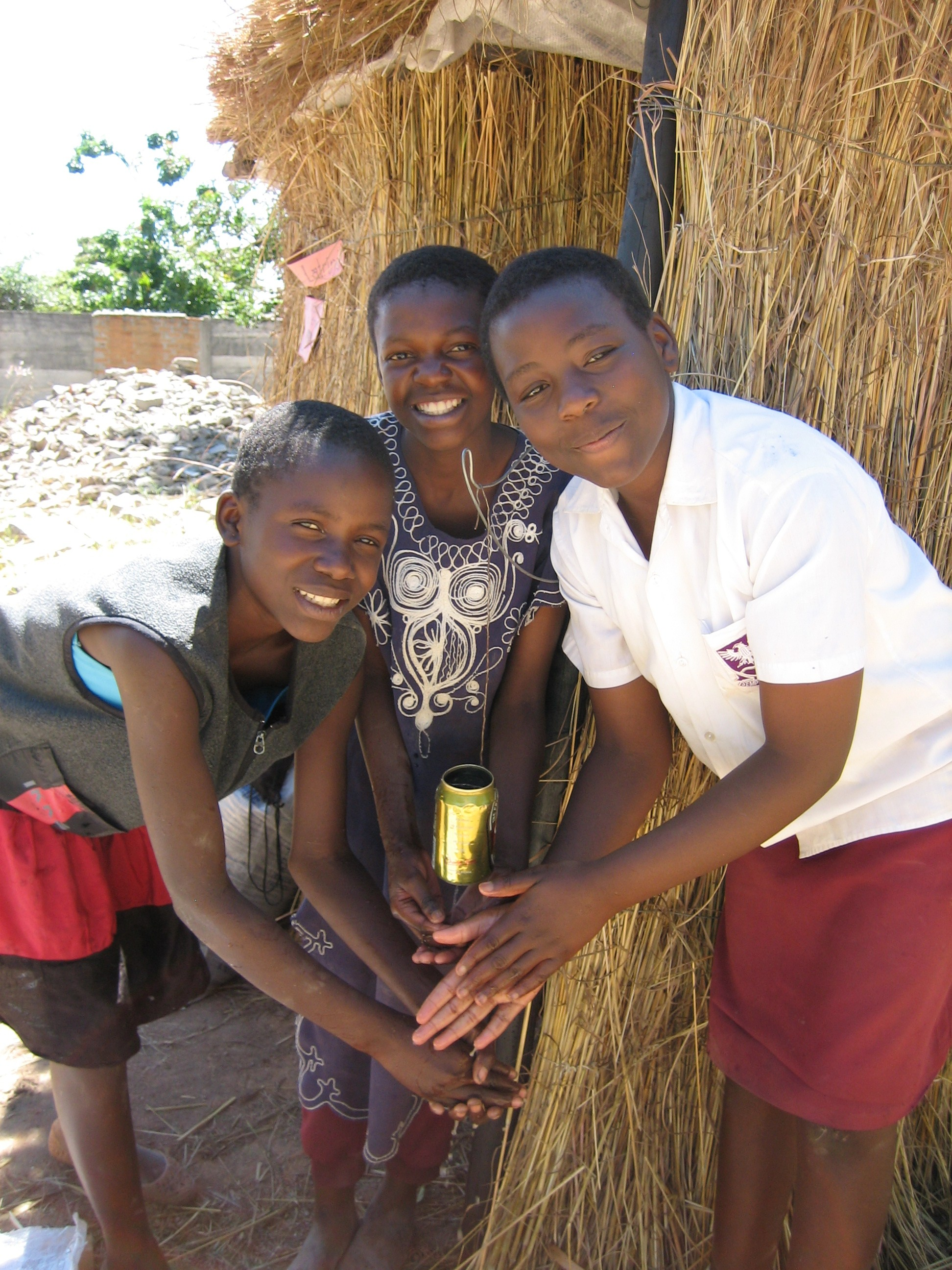 Chisungu School. Making handwashers was simple and very effective. Photo by: Peter Morgan in April 2009, Epworth-Zimbabwe